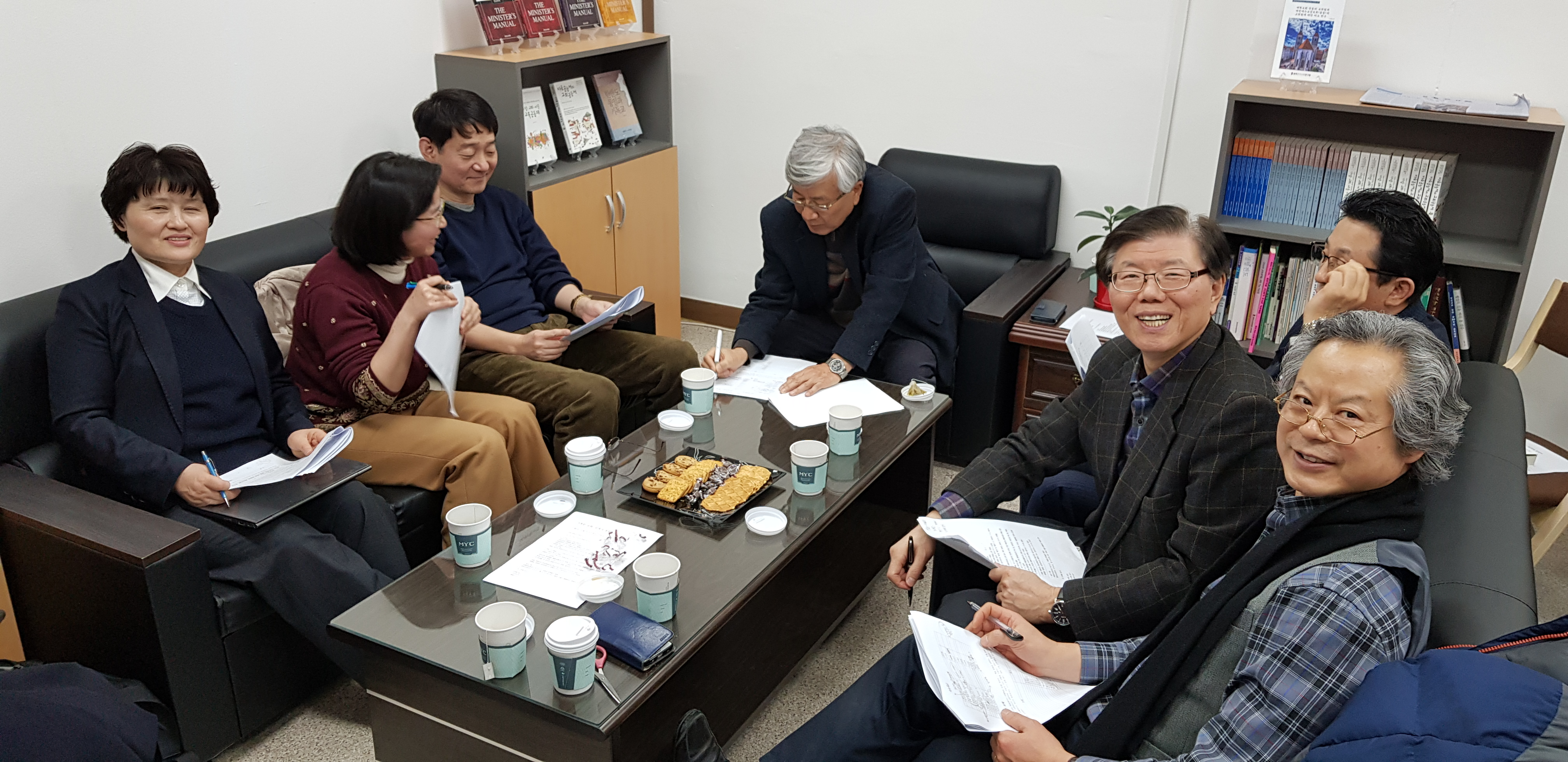 professors in Research Center of the Presbyterian Church of Korea